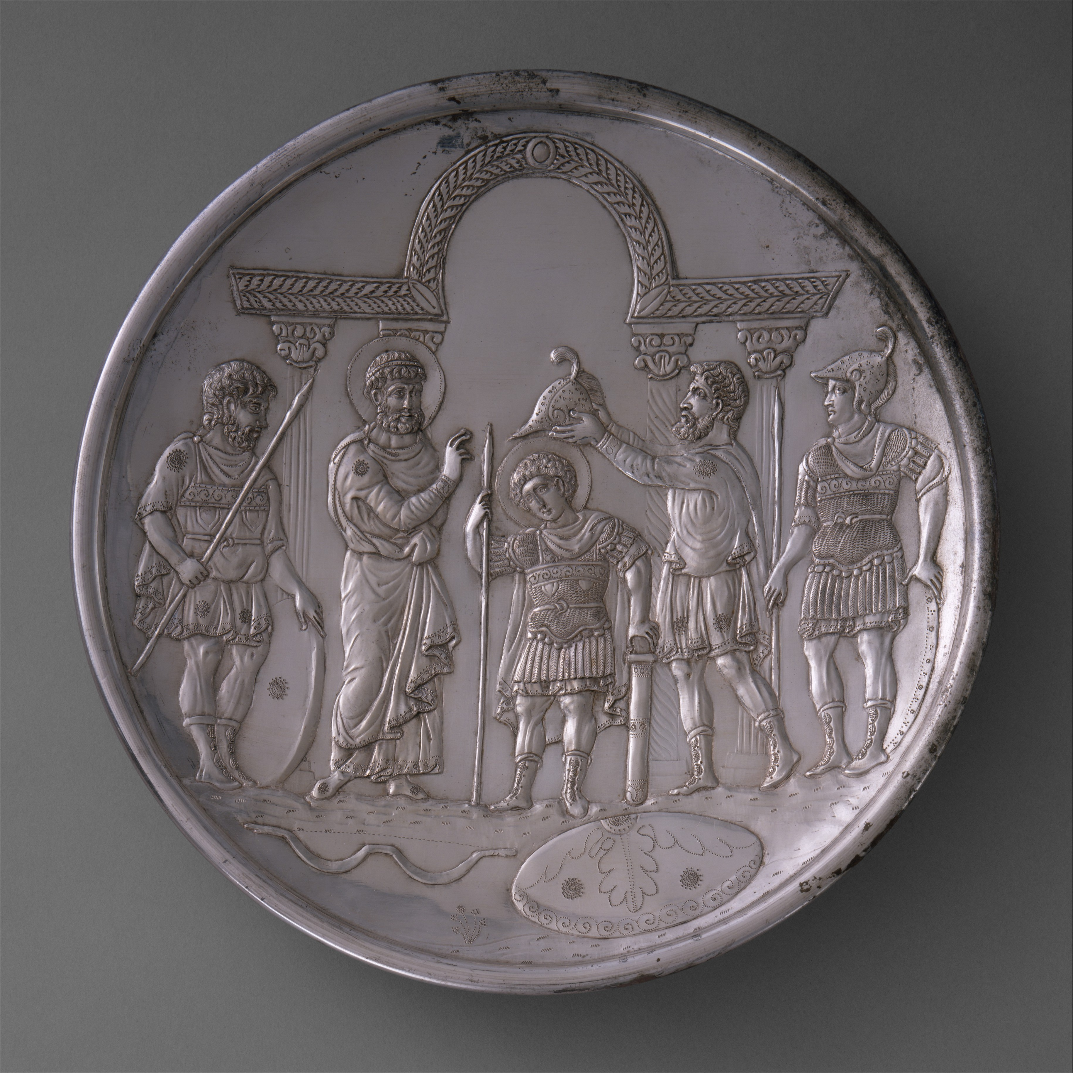 Byzantine; Plate; Metalwork-Silver